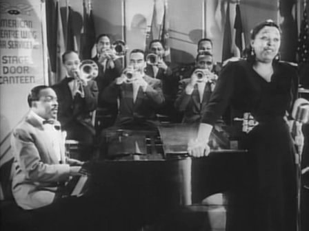 Cropped screenshot of Count Basie and his band with featured vocalist Ethel Waters from the film Stage Door Canteen.